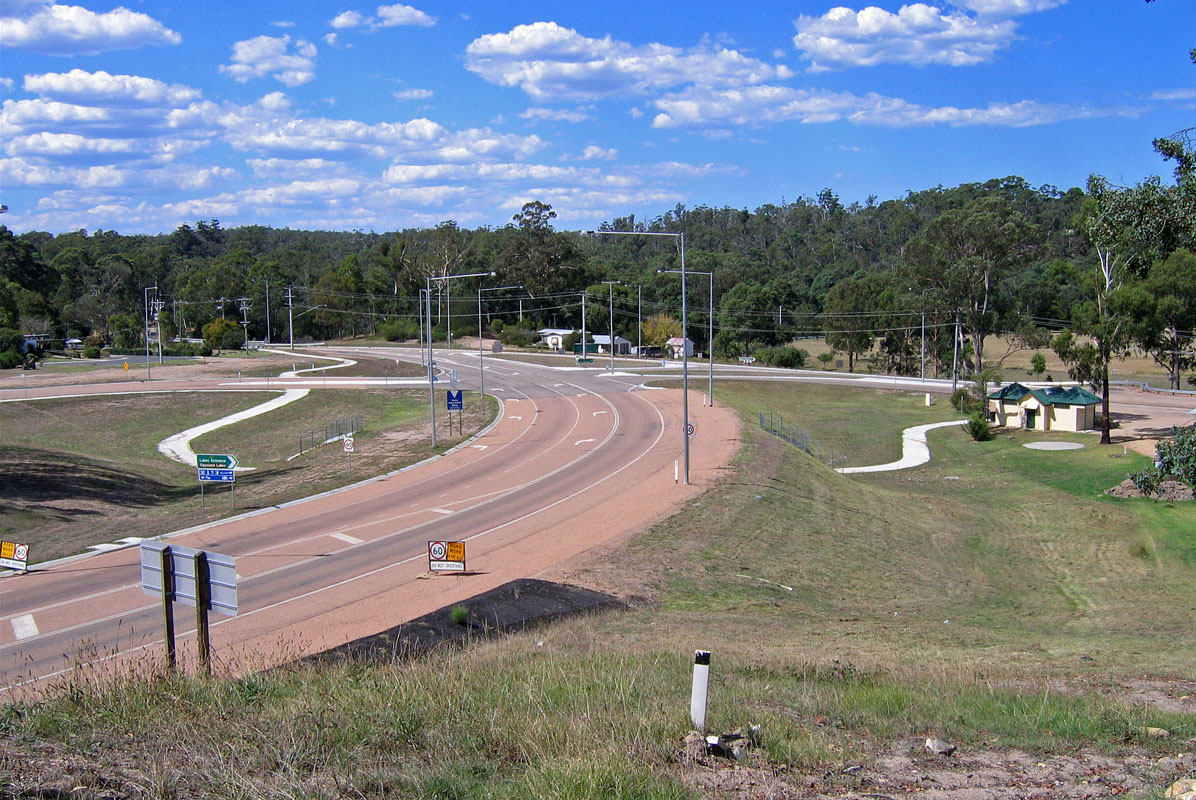 Nowa Nowa Princes Highway junction with the main road coming in from Bruthen and heading towards Orbost, while the road going to image right heads towards Lakes Entrance. The East Gippsland Rail Trail is the white concrete path passing below the highway, and other town facilities are also visible. Victoria, Australia.